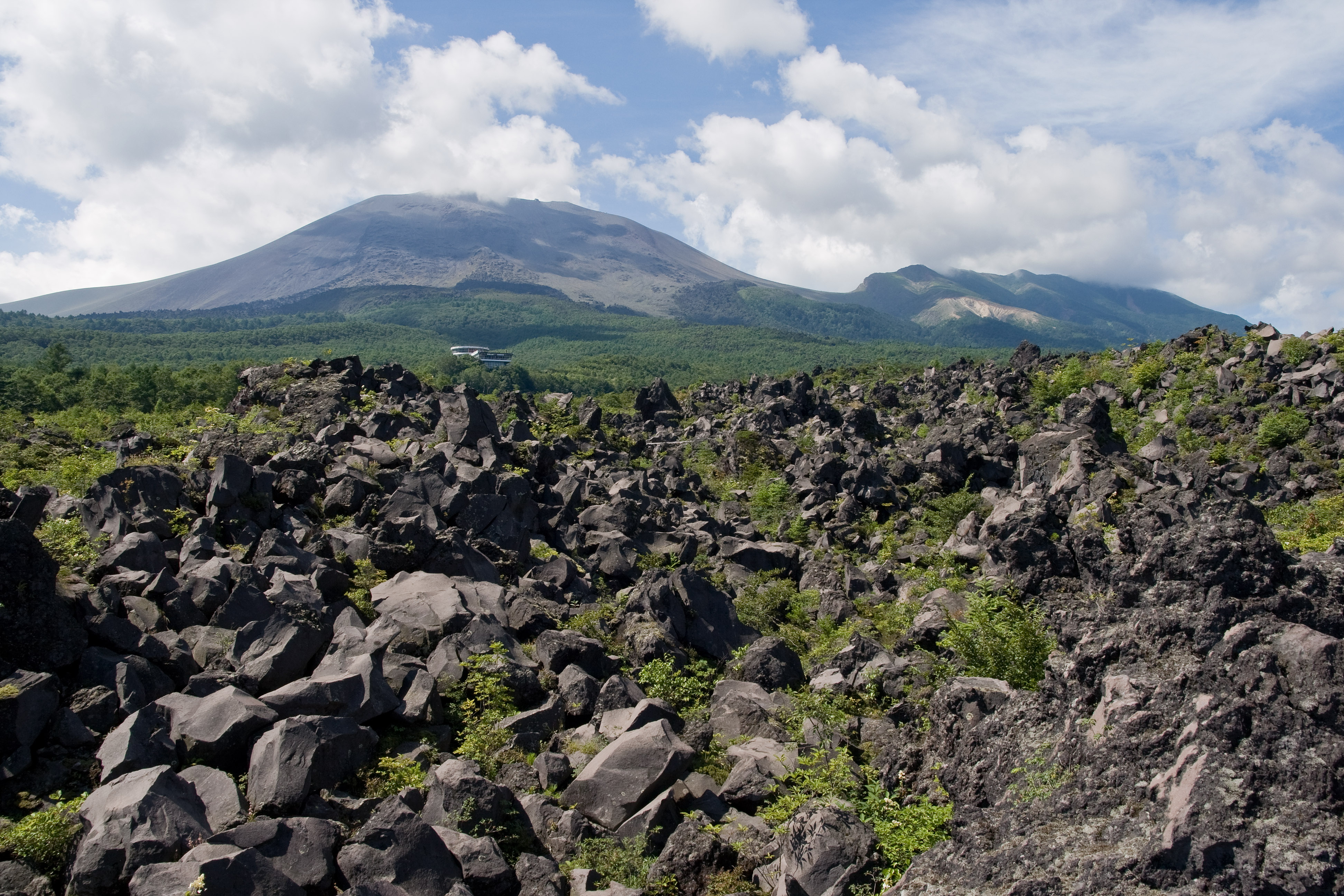 Mt.Asama as seen from Onioshidashi, Tsumagoi Vill., Gunma Pref., Japan